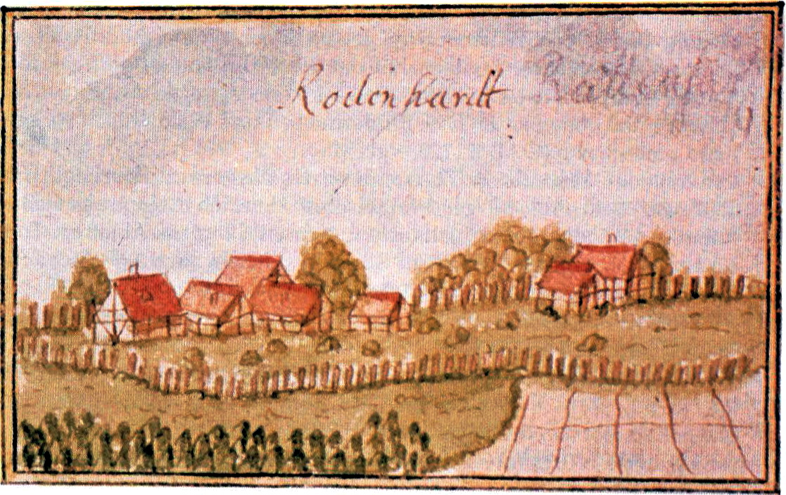 Rattenharz (Lorch (Württemberg)), drawing from Andreas Kieser's Forstlagerbuch, 1685